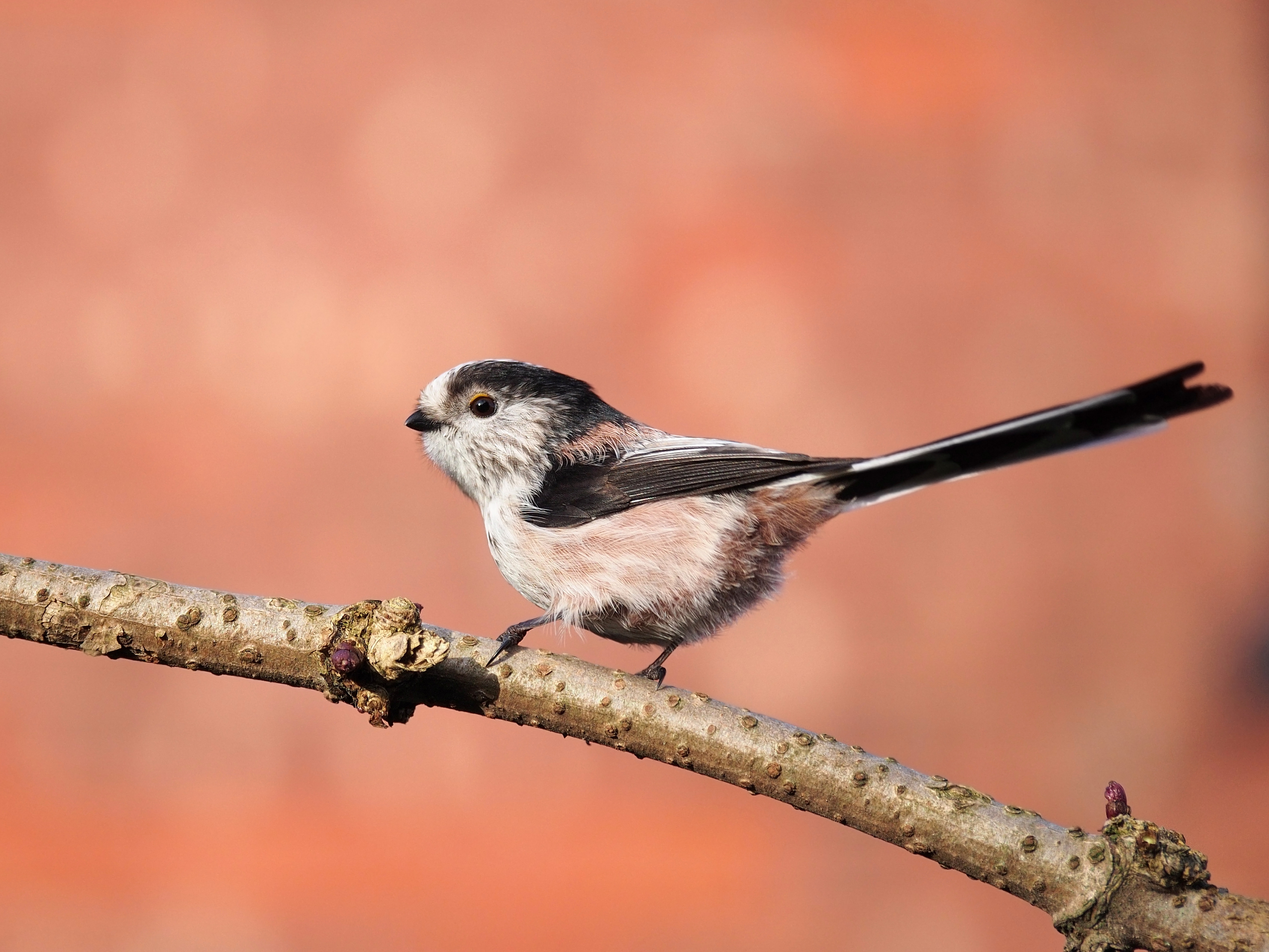 Aegithalos caudatus, Lancashire, UK